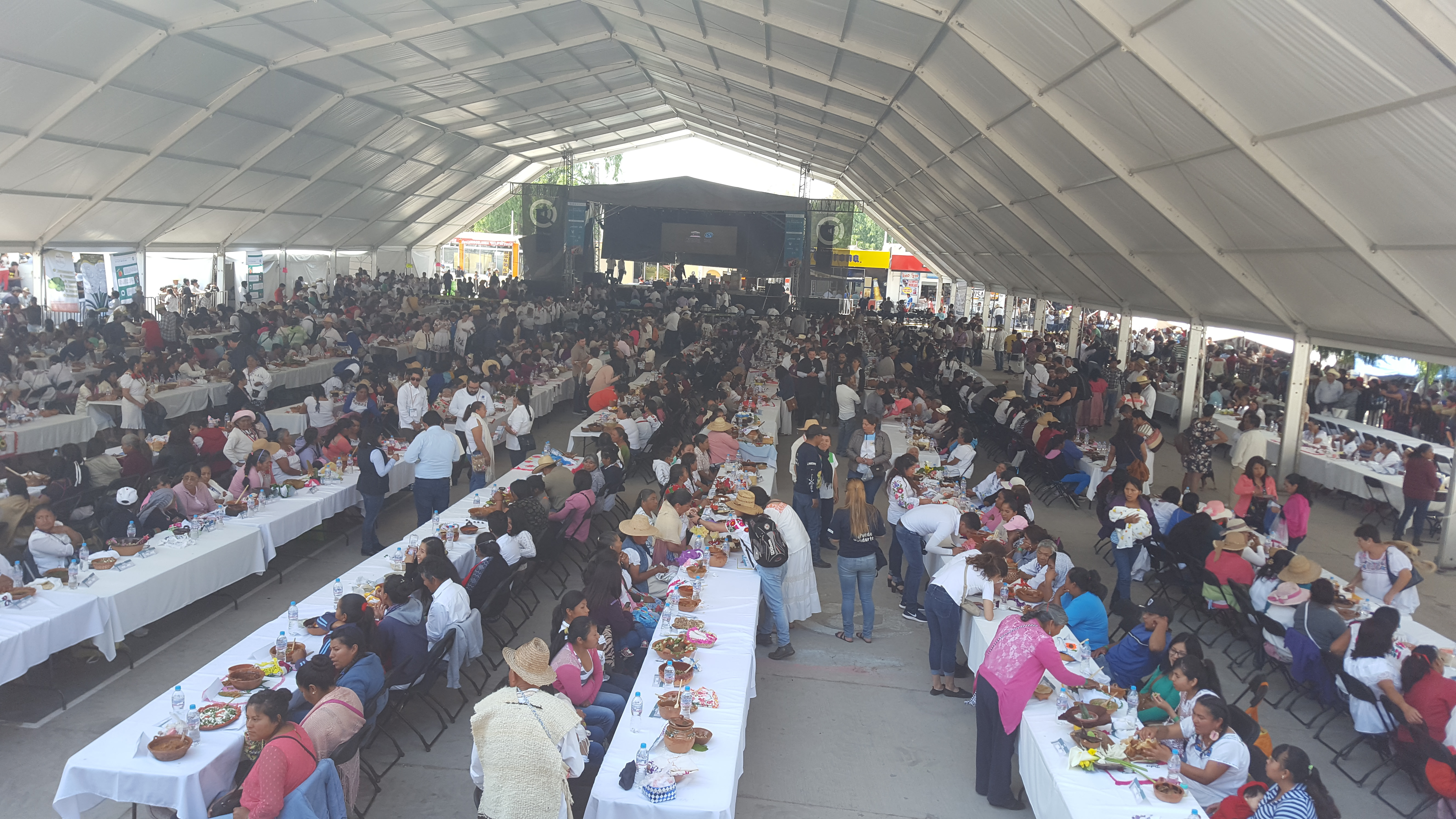 Contestants of the XXXVIII Gastronomical fair of Santiago de Anaya, in the state of Hidalgo, Mexico.